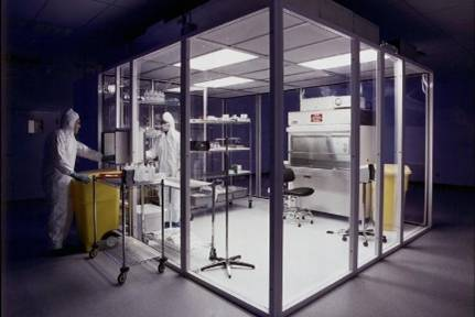 clean room history, part4